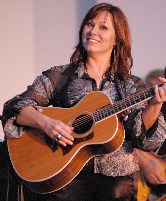 Suzy Bogguss performing in Aledo, IL. on June 6th, 2009 Photo taken by Mark Hawkins, Webmaster